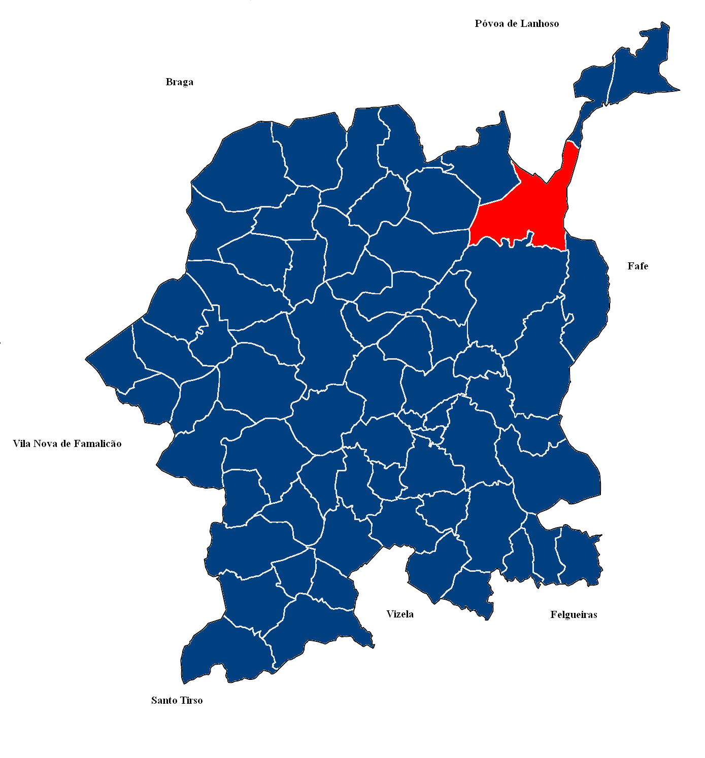 Map of Gonça parish, Guimarães Municipality, Portugal